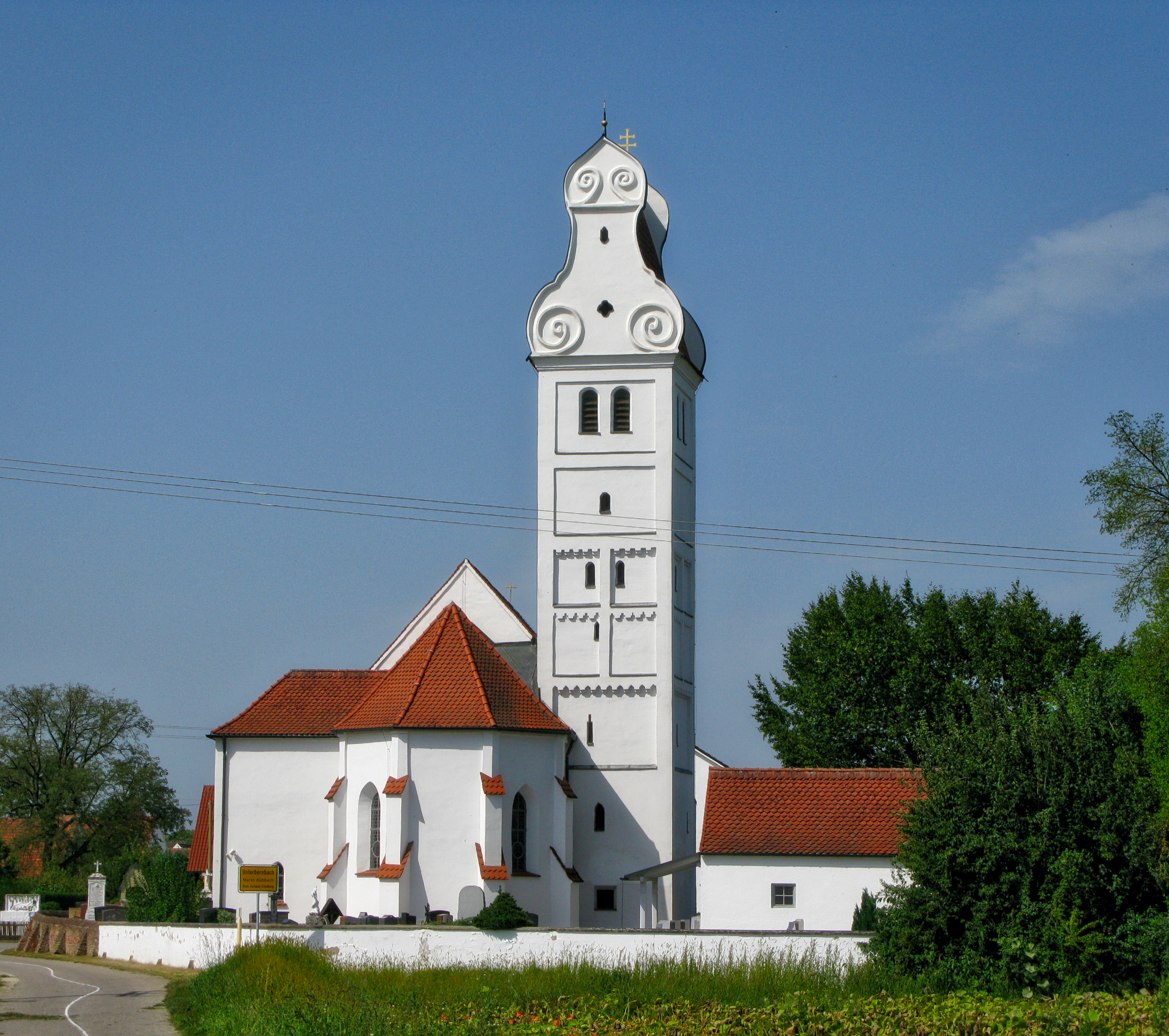 Church in Unterbernbach, Bavaria, Germany